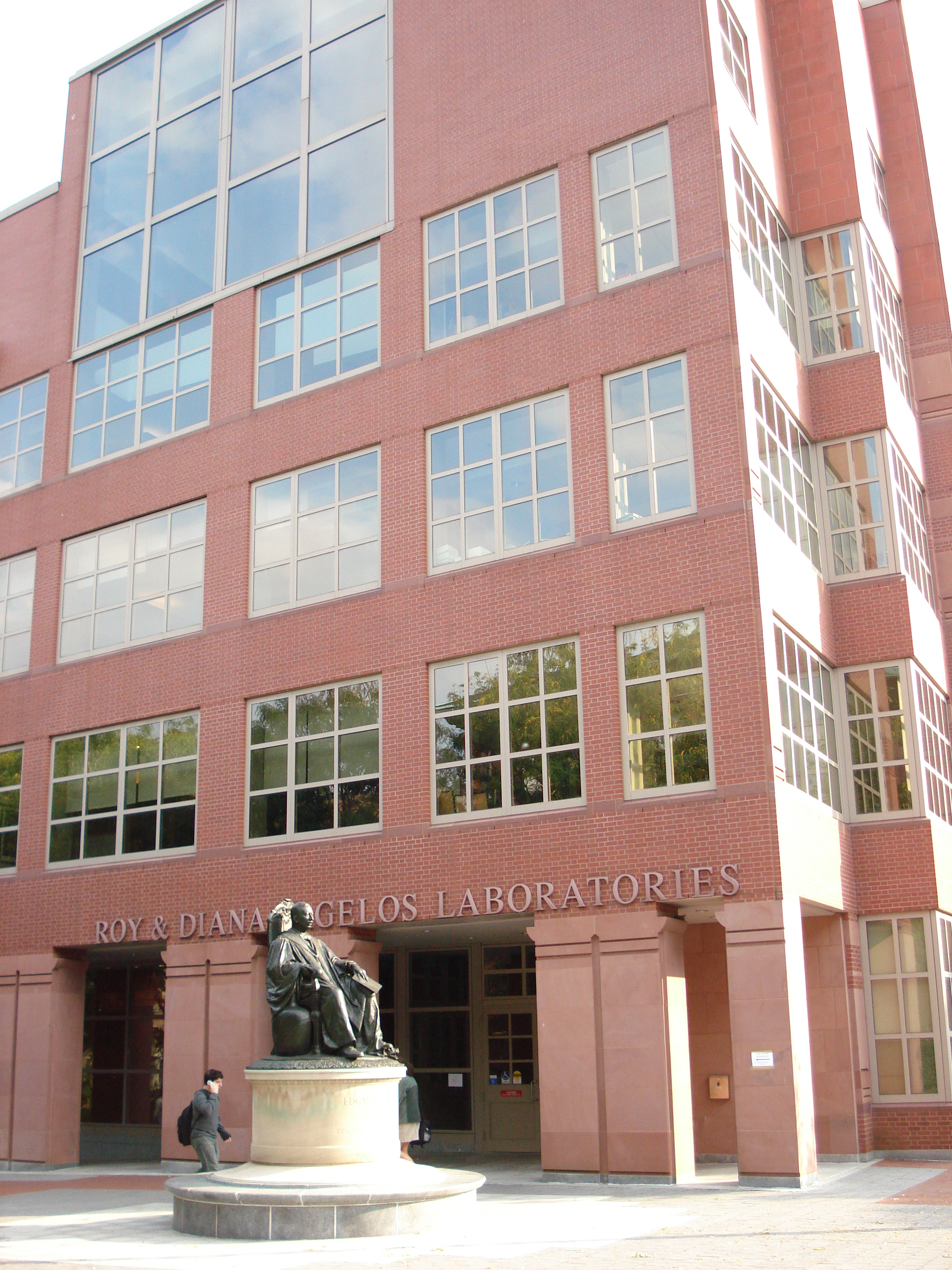 I took the picture with my digital camera.